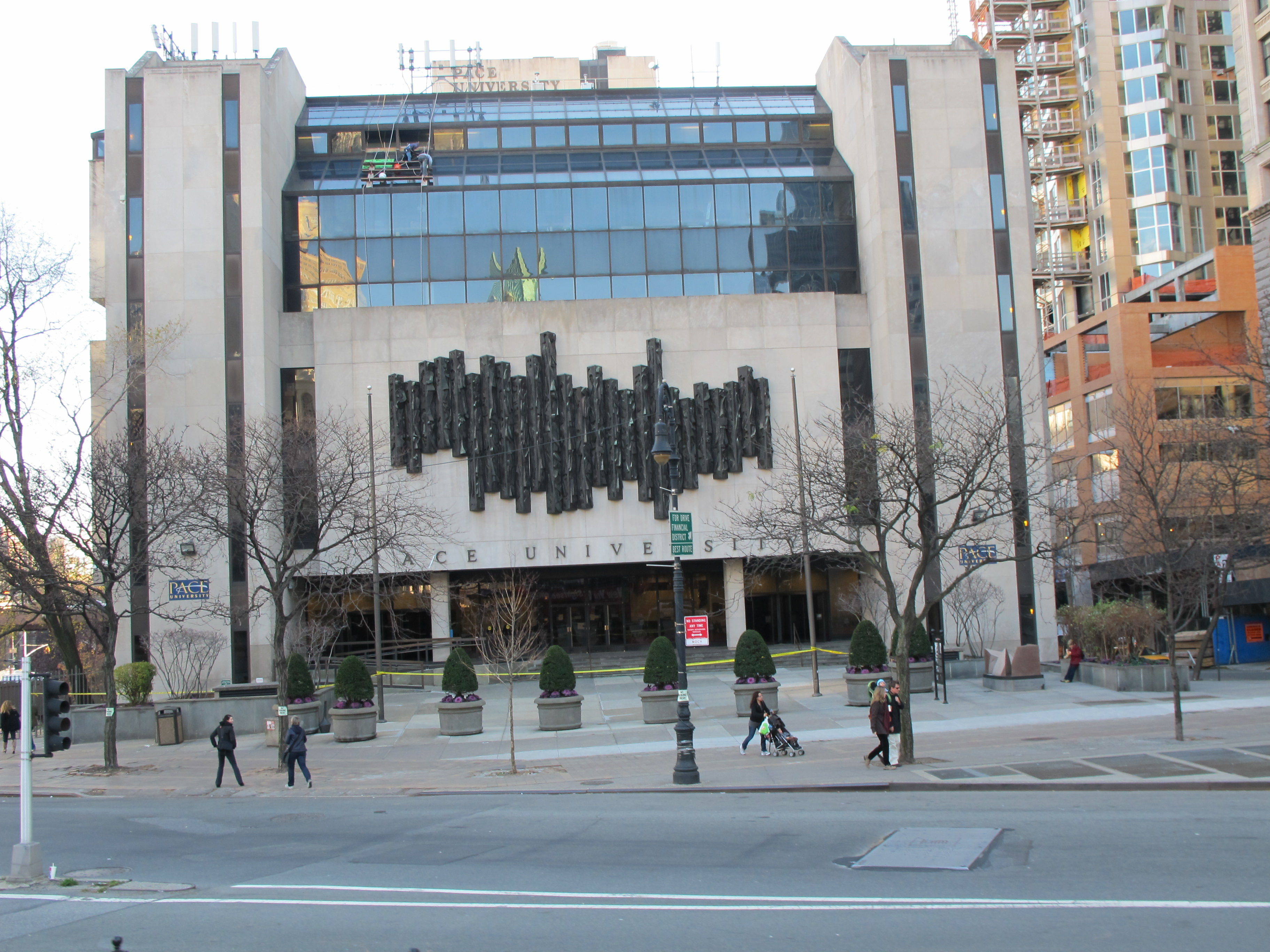 Manhattan, New York City